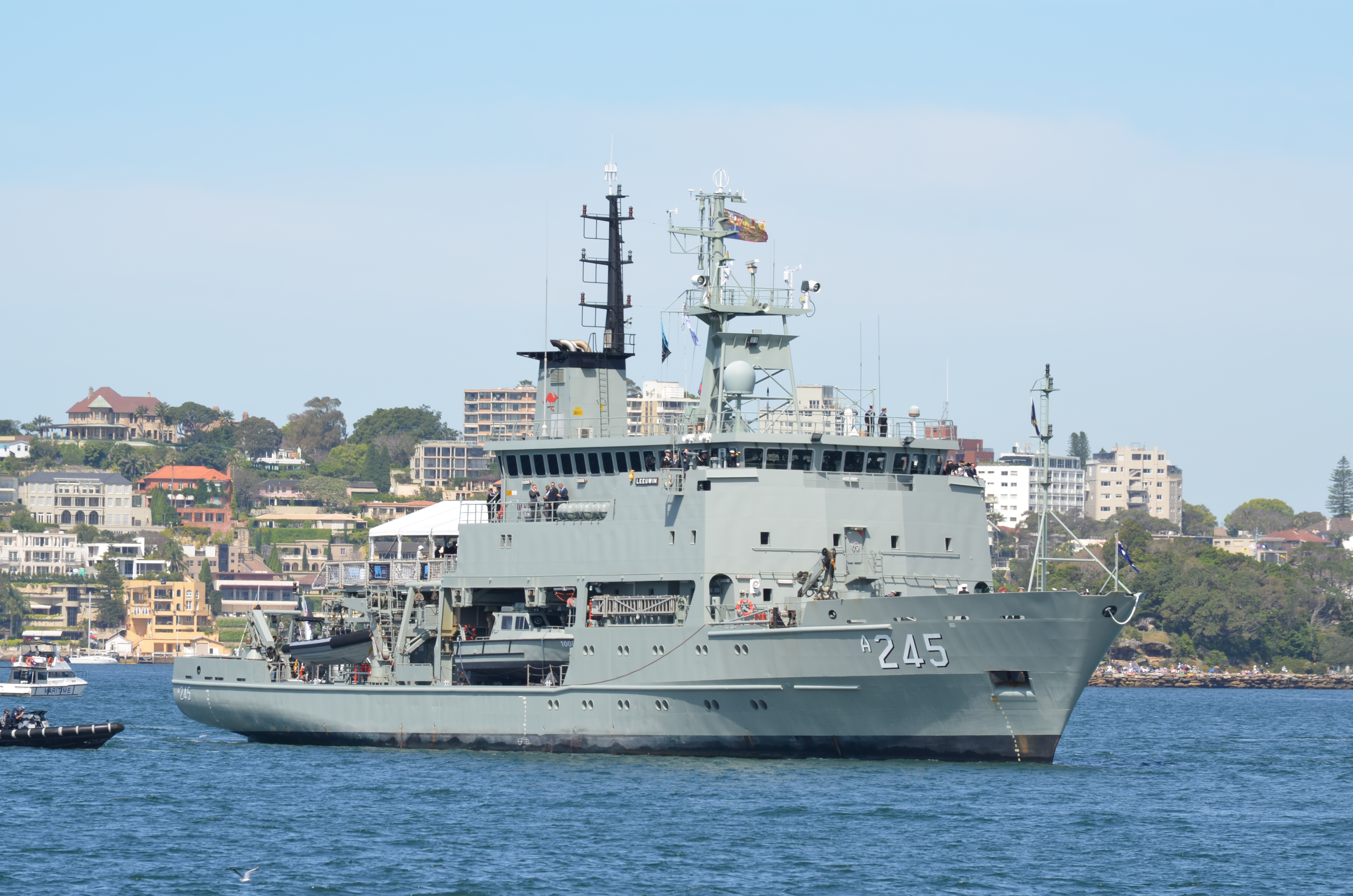 Photographs taken during day 3 of the Royal Australian Navy International Fleet Review 2013.HMAS Leeuwin underway while reviewing the fleet.